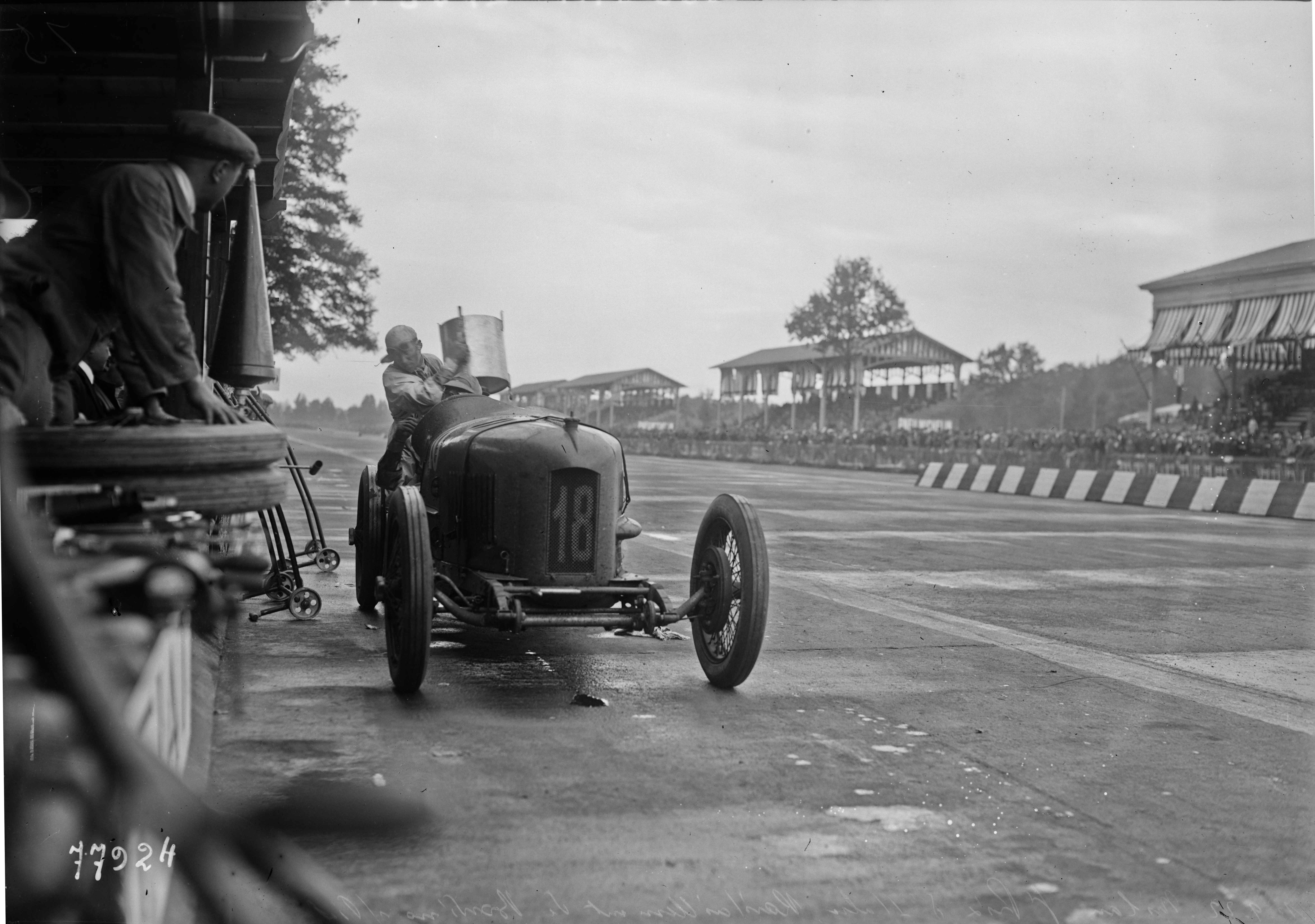 Pietro Bordino at the 1922 Italian Grand Prix